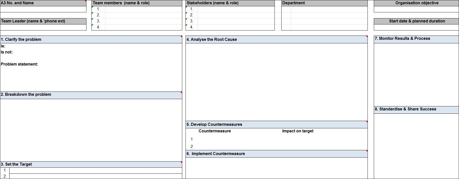 Example of worksheet used in "A3 problem solving" methodology. Worksheet size is ISO A3 size.